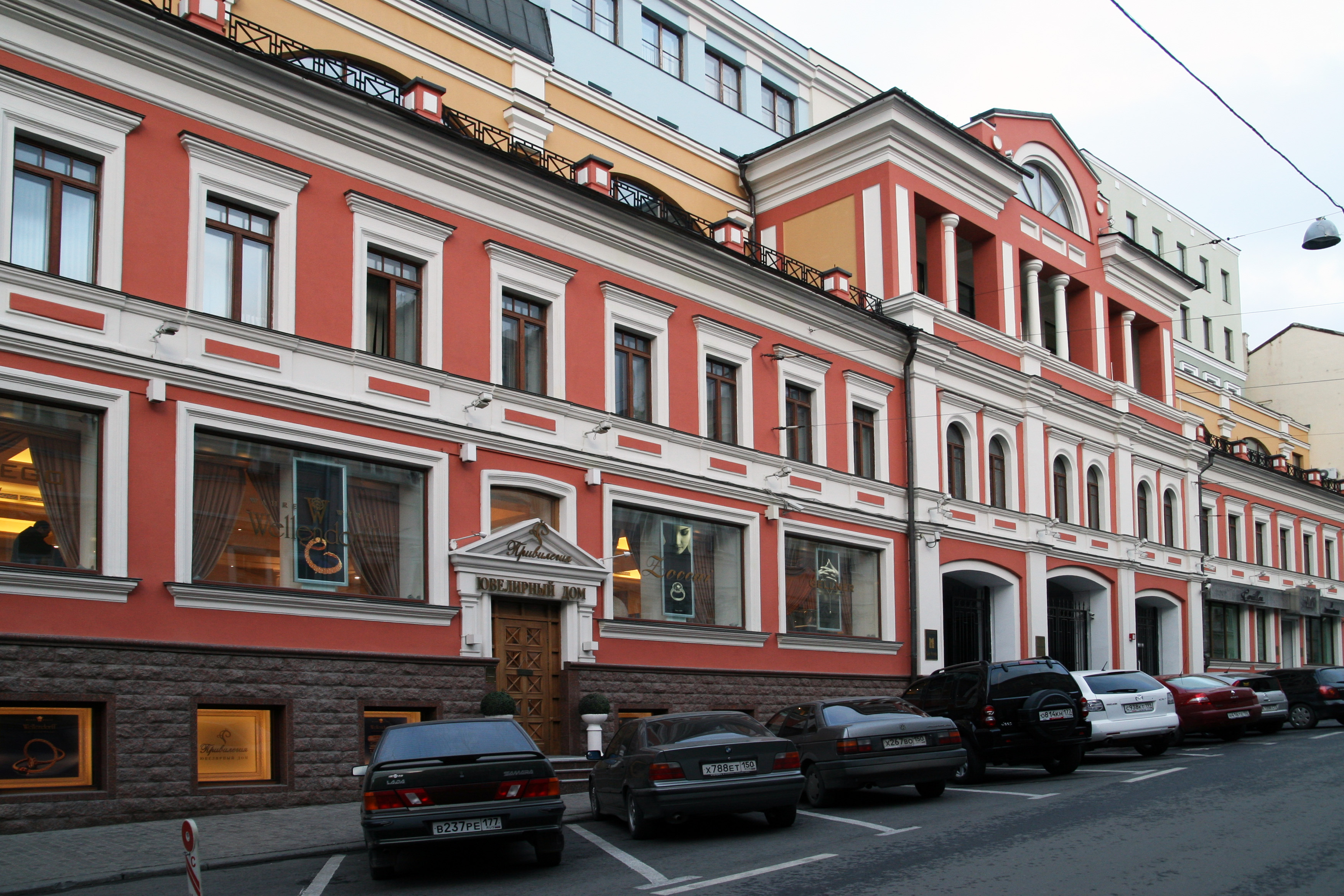 Moscow, Kuznetsky Most Street 17